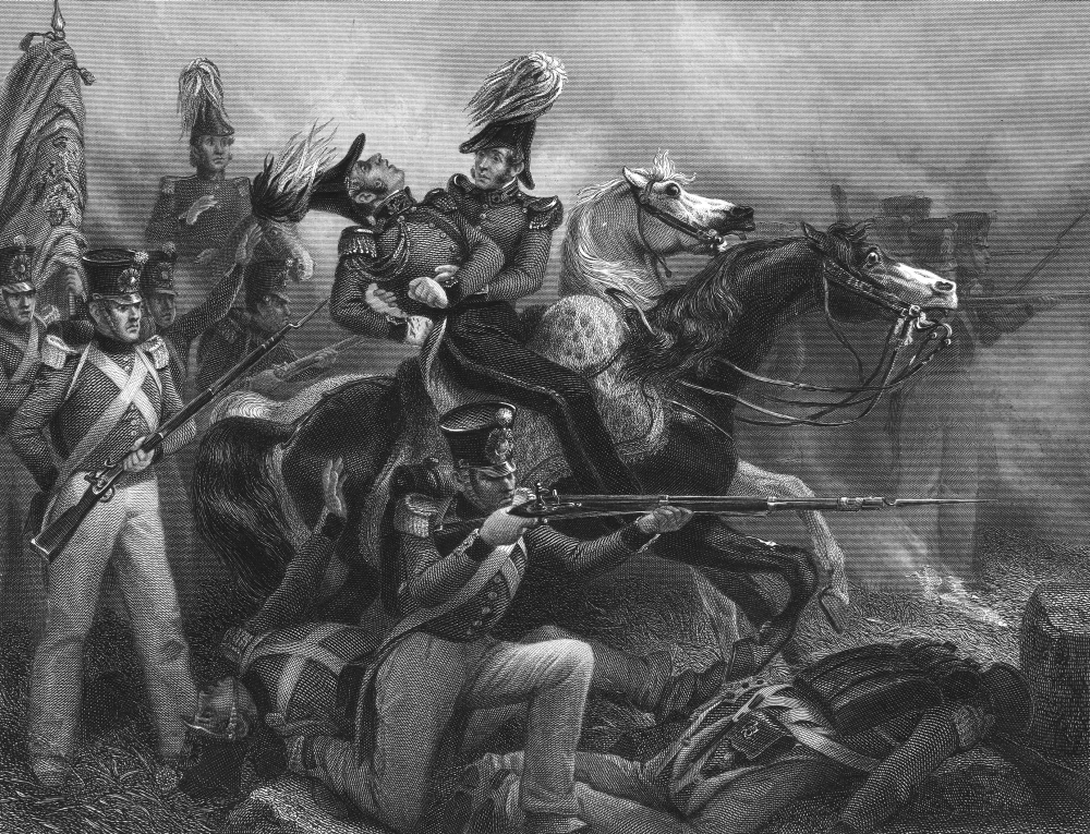 Print shows British General Robert Ross, on horseback, mortally wounded, on September 12th, 1814.